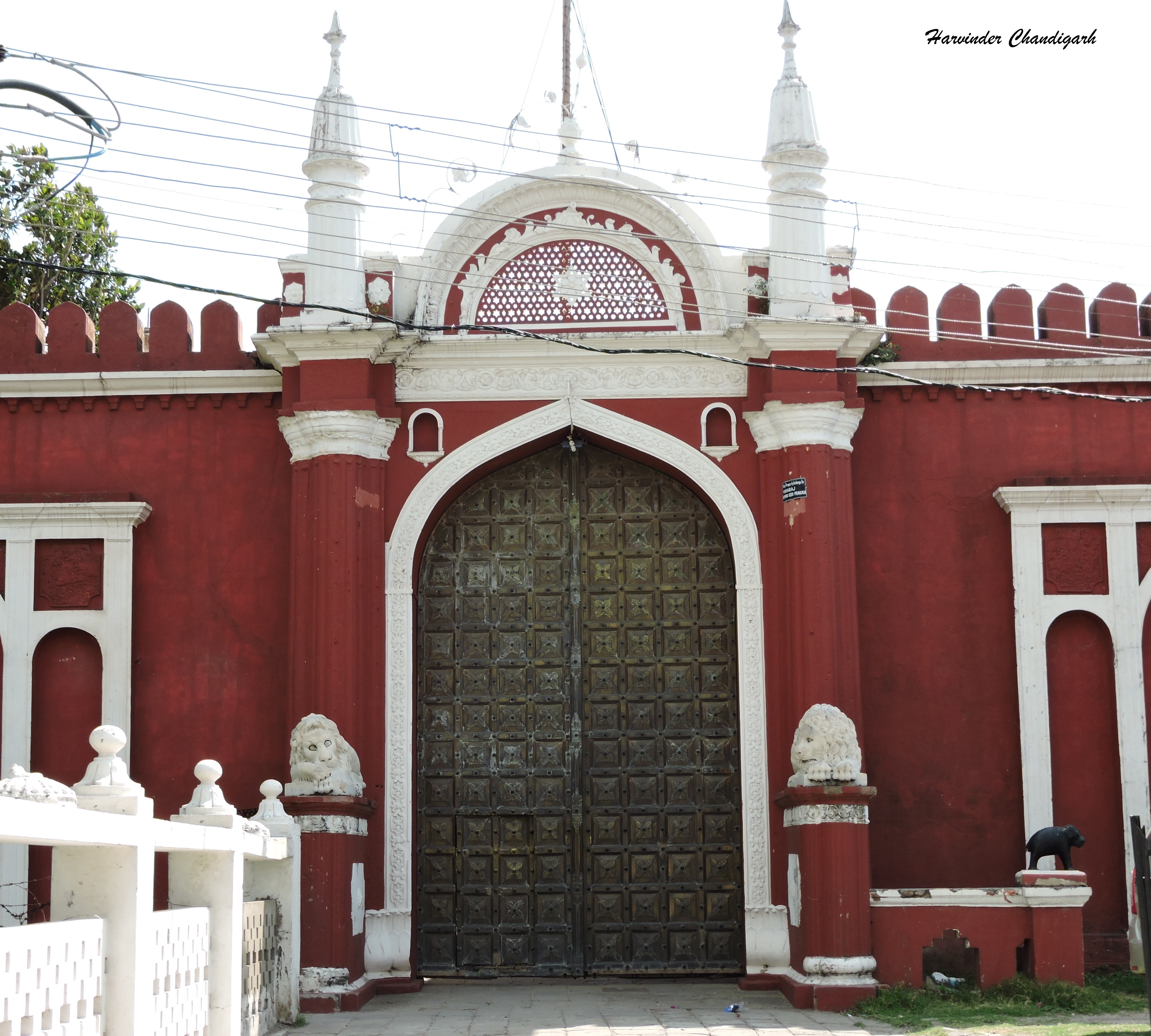 Entrance of Nahan fort, Nahan , district Sirmaur, Himachal Pradesh, India